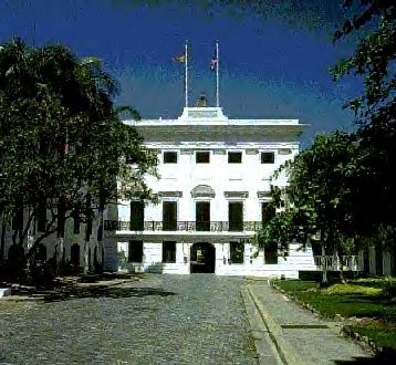 Image of La Fortaleza, the governor's mansion in Puerto Rico.